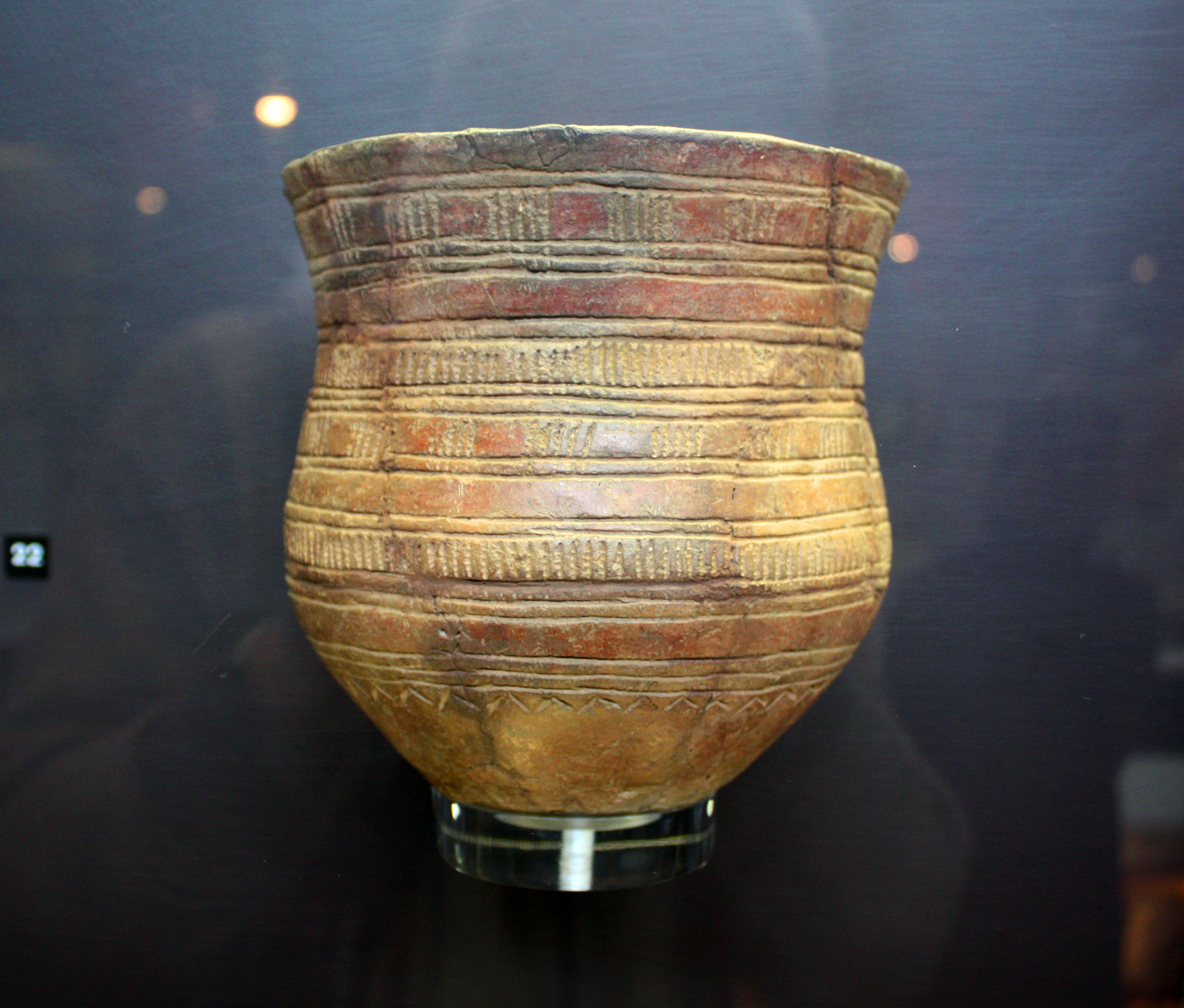 Cologne-Fühlingen, Neolithic bell beaker. Römisch-Germanisches Museum (RGM), Cologne